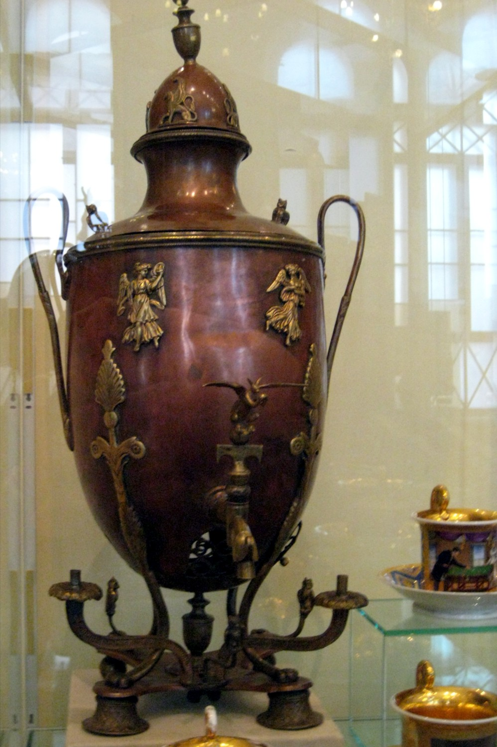 Samovar in form of Ancient vase. Russian (Alexandrovskiy) Empire Stile. Early XIX c.